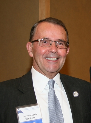 Del. Robert Brink (D) of Arlington County, Virginia